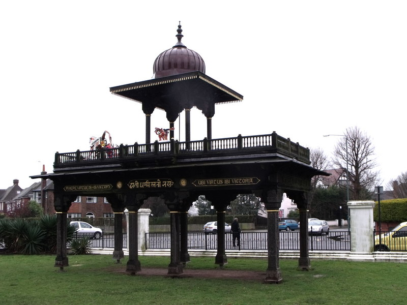 Jaipur Gate, Hove Museum and Art Gallery, East Sussex. The gate was made in Rajasthan in 1886 for the Colonial and Indian Exhibition in Kensington, London. It has stood in the grounds of Hove Museum and Art Gallery since 1926.